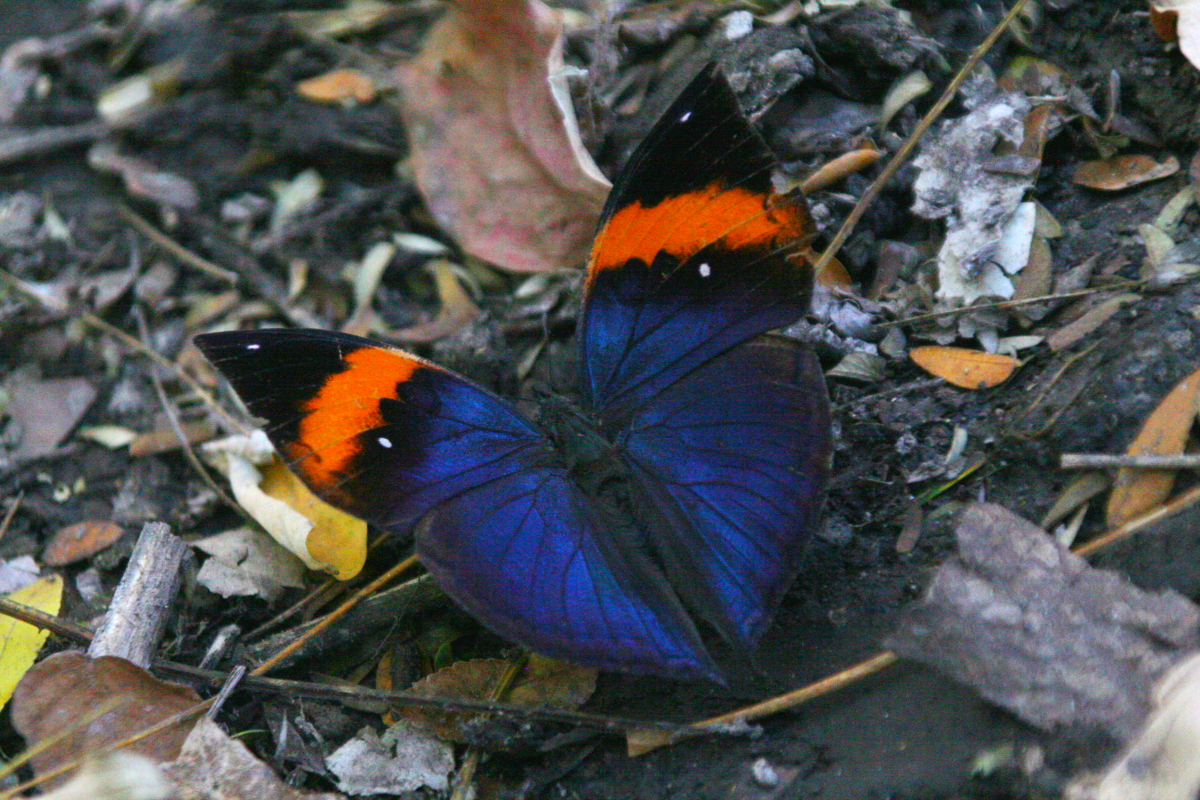 Kallima inachus - Orange Oak Leaf, Monsanto Insectarium, St. Louis Zoo